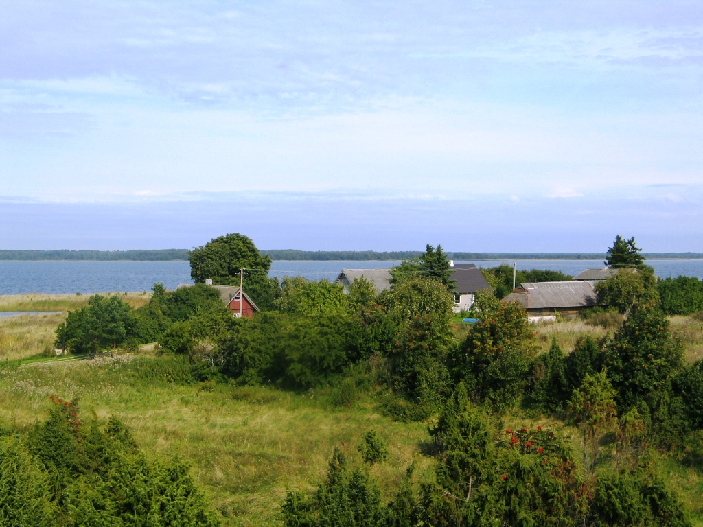 Maasi village in Orissaare parish